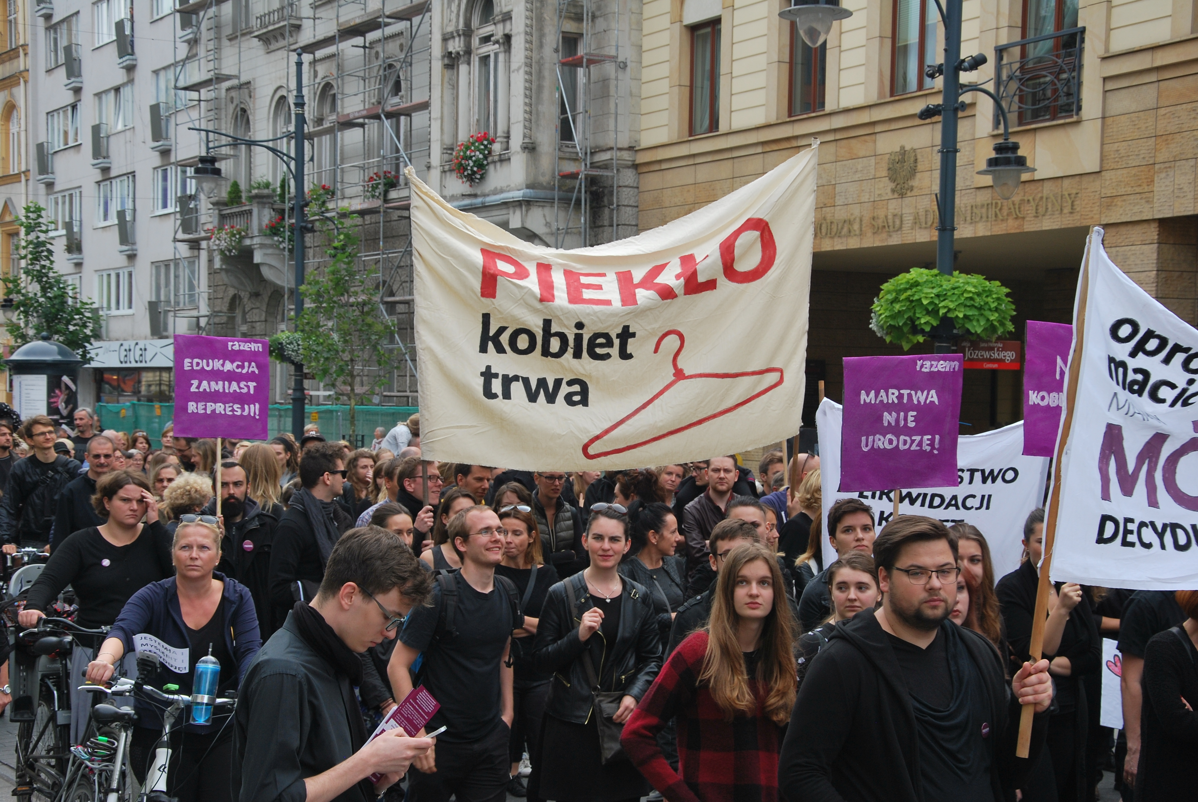 Black March in support of abortion rights, Łódź October 2nd 2016